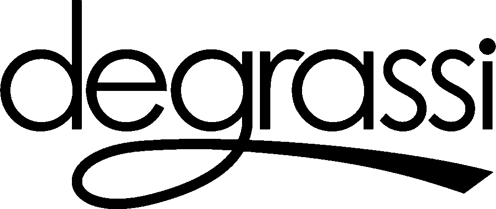 Degrassi: The Next Generation logo introduced in 2013.